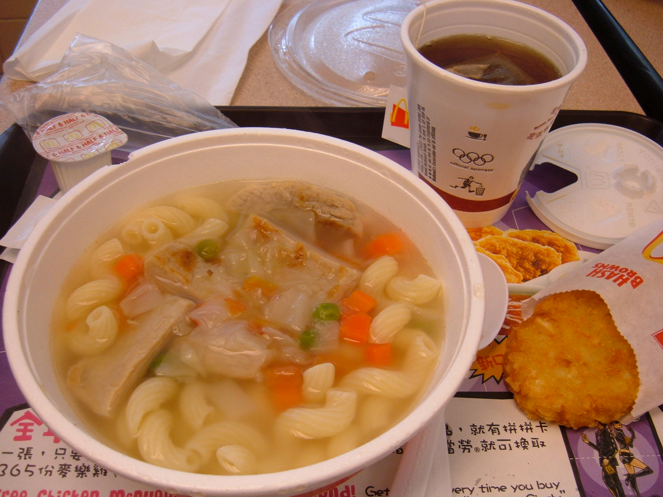 Breakfast meal from a McDonald's in Kowloon, Hong Kong, consisting of: chicken and vegetable pasta, hash brown, tea.